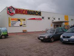 Supermarket budowlany Bricomarche